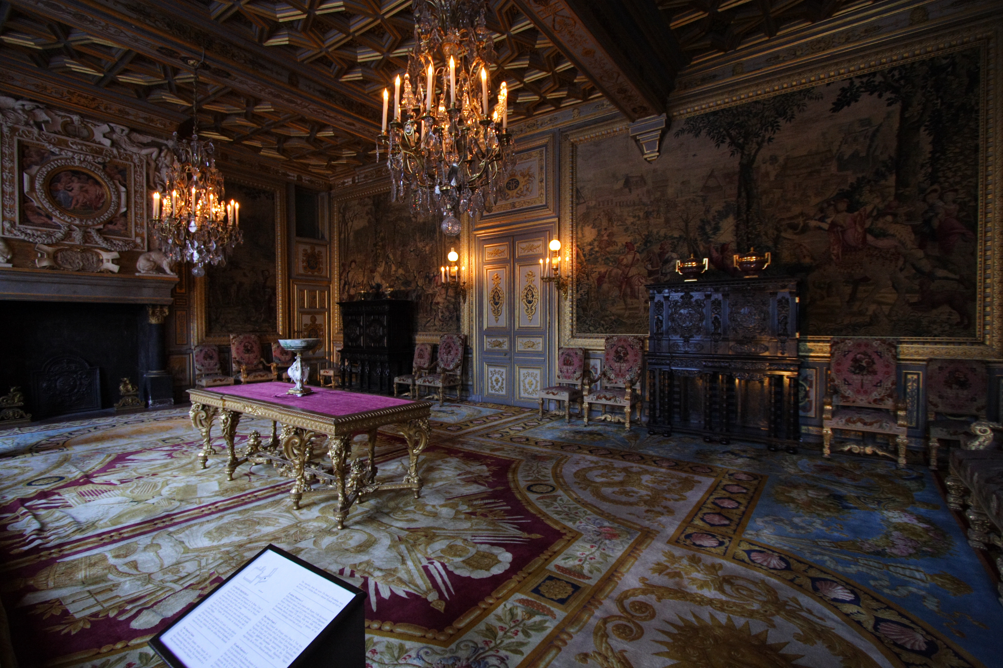 Drawing room of Francis I in the Palace of Fontainebleau